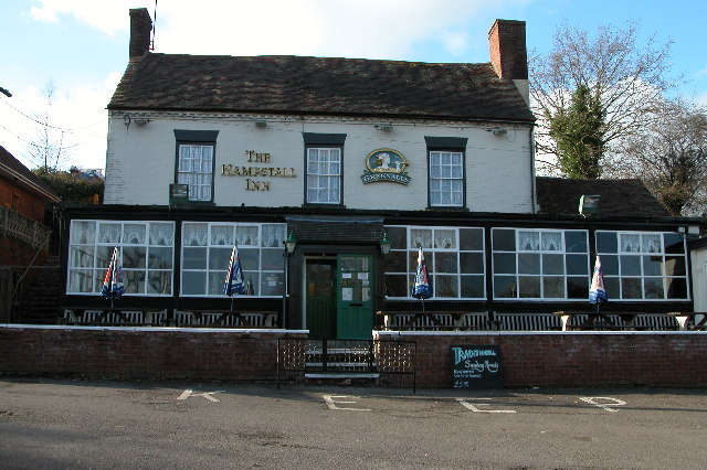 The Hampstall Inn, The Burf. This is a popular inn overlooking the River Severn between Worcester and Stourport-on-Severn.